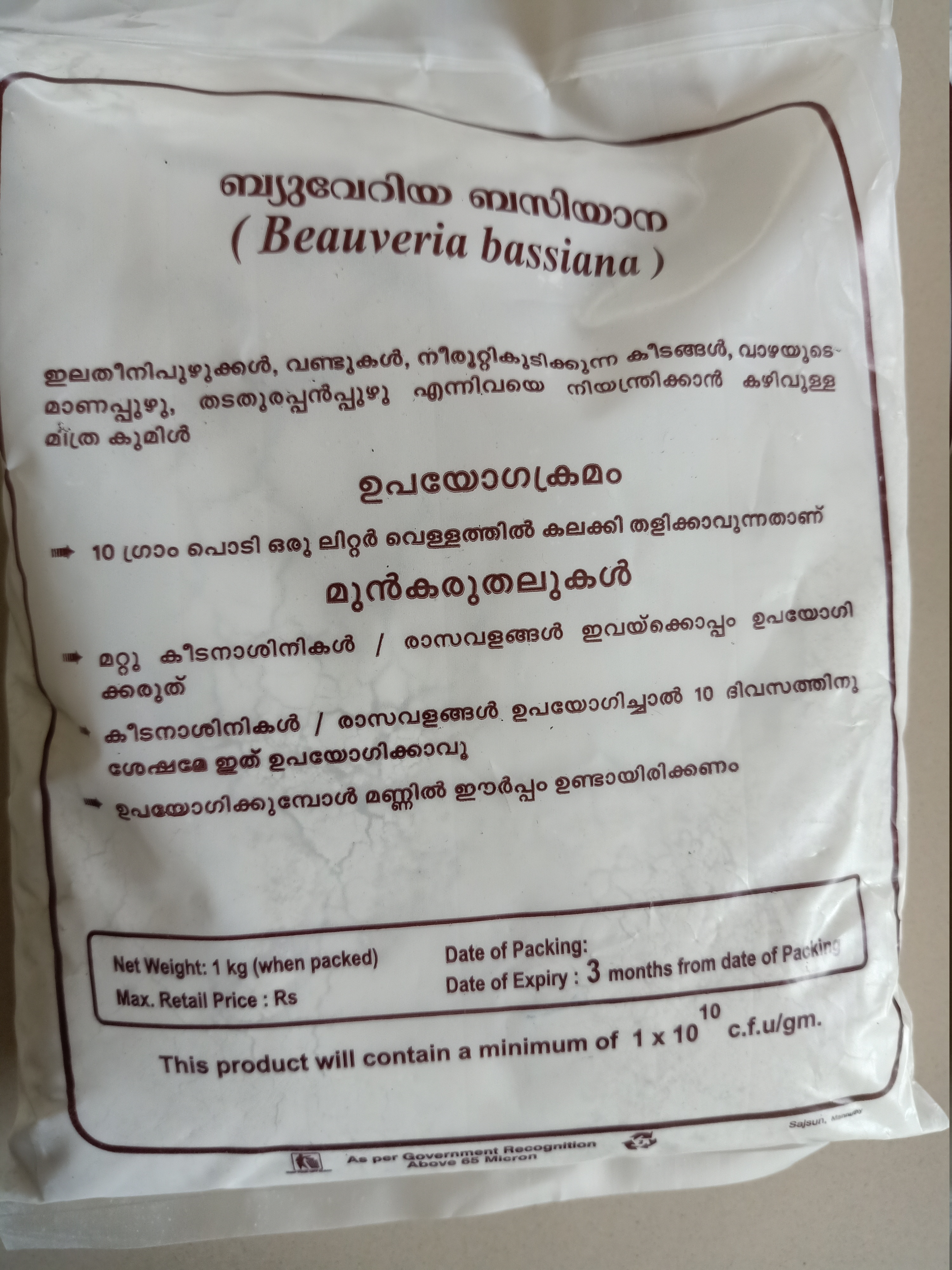 Packet containing Beauveria bassiana _ instructions to use